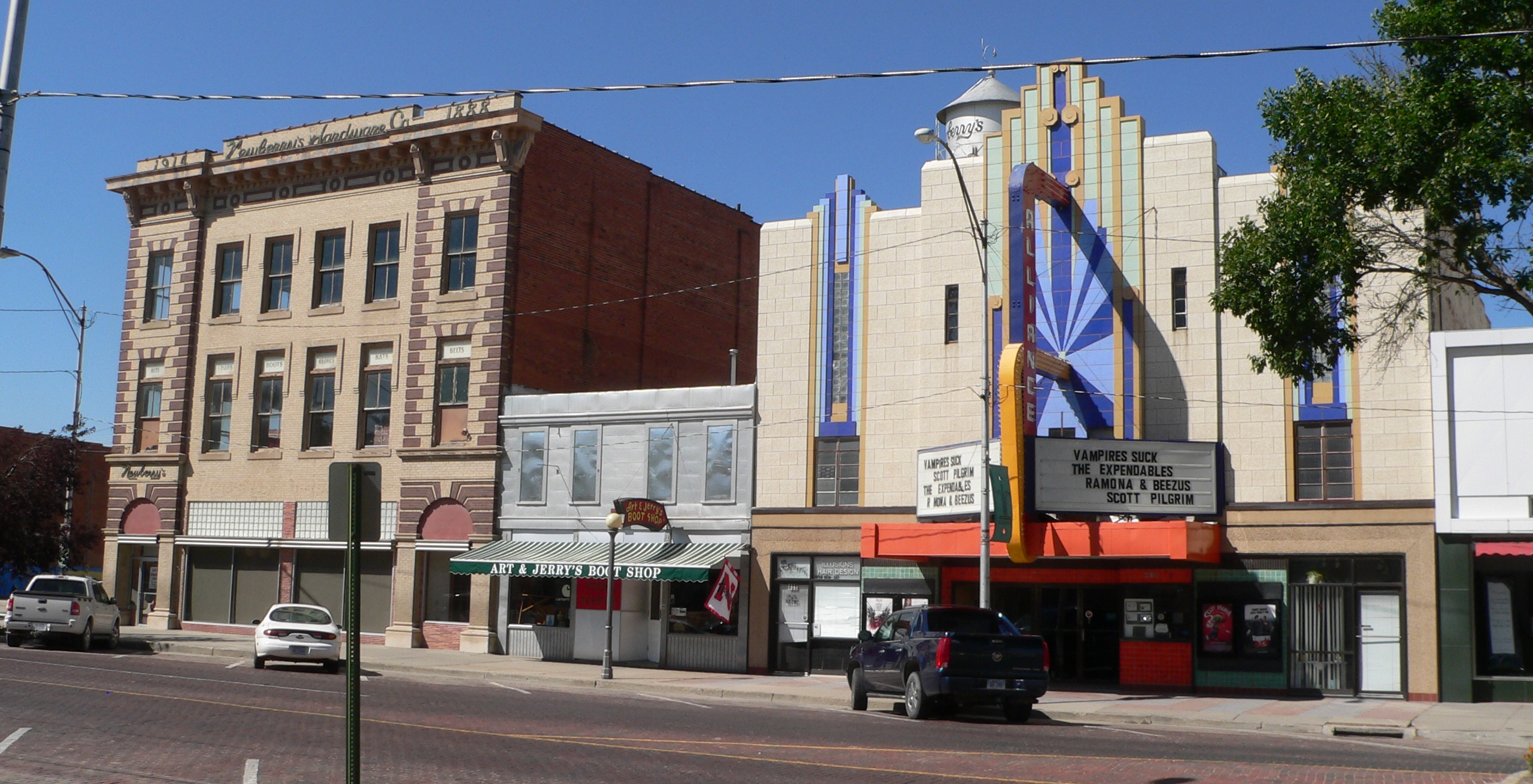 Buildings in downtown Alliance, Nebraska. The three-story building at left is the Newberry Hardward Co. building, built in 1914, located at 402 Box Butte Avenue. The low building in the center is at 406 Box Butte Avenue, built ca. 1897. At right is the Alliance Theater, at 410 Box Butte Avenue, built in 1937. The water tower partially visible behind the theater is atop the Newberry building. The buildings are contributing properties in the Alliance Commercial Historic District, which is listed in the National Register of Historic Places.